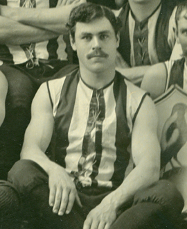 Photograph of George Ashman in 1901.